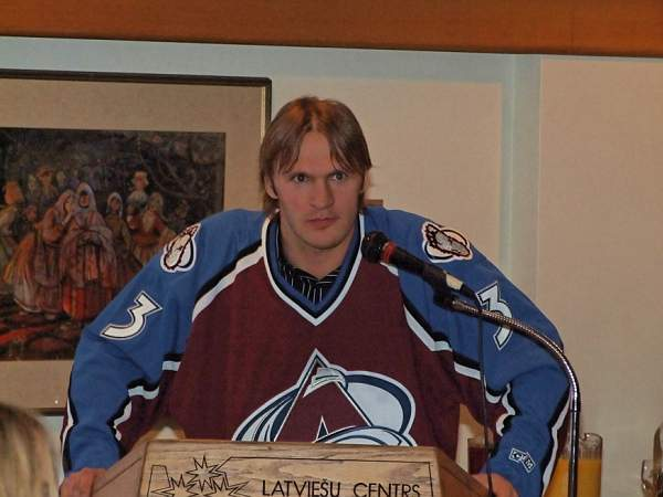 Karlis Skrastins, #3, October 2006 of Colorado Avalanche (NHL), visiting the Toronto Latvian Centre